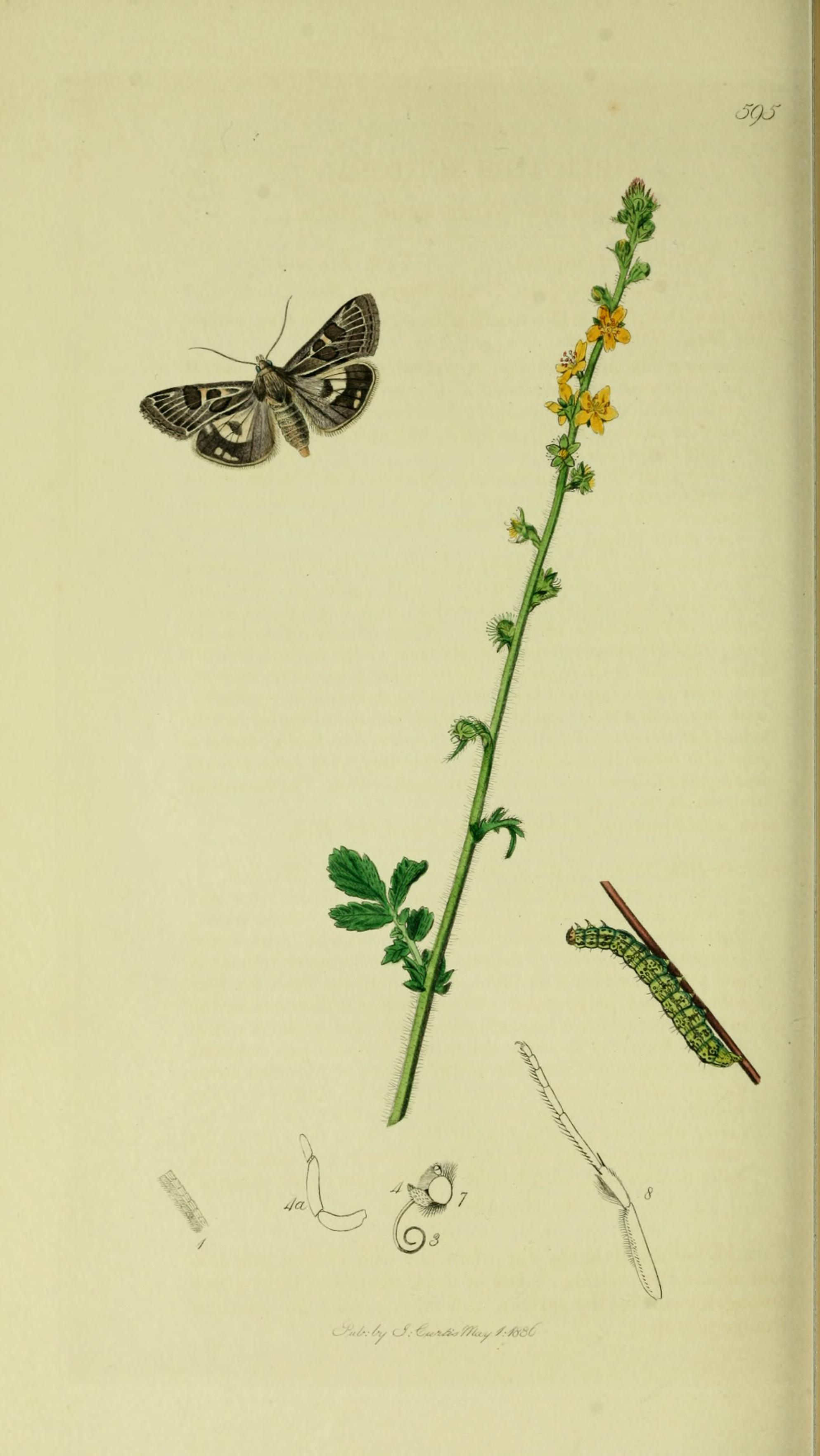 An illustration from British Entomology by John Curtis. Heliothis scutosa or Schinia scutosa (Marbled Wormwood Moth).